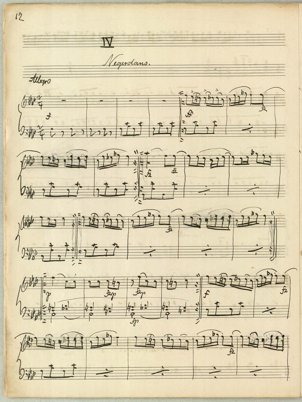 Klaverudtoget for "Negerdans" from Carl Nielsens Aladdin